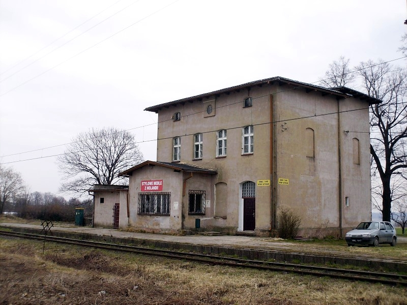 Train stop in Kozow, near Zlotoryja